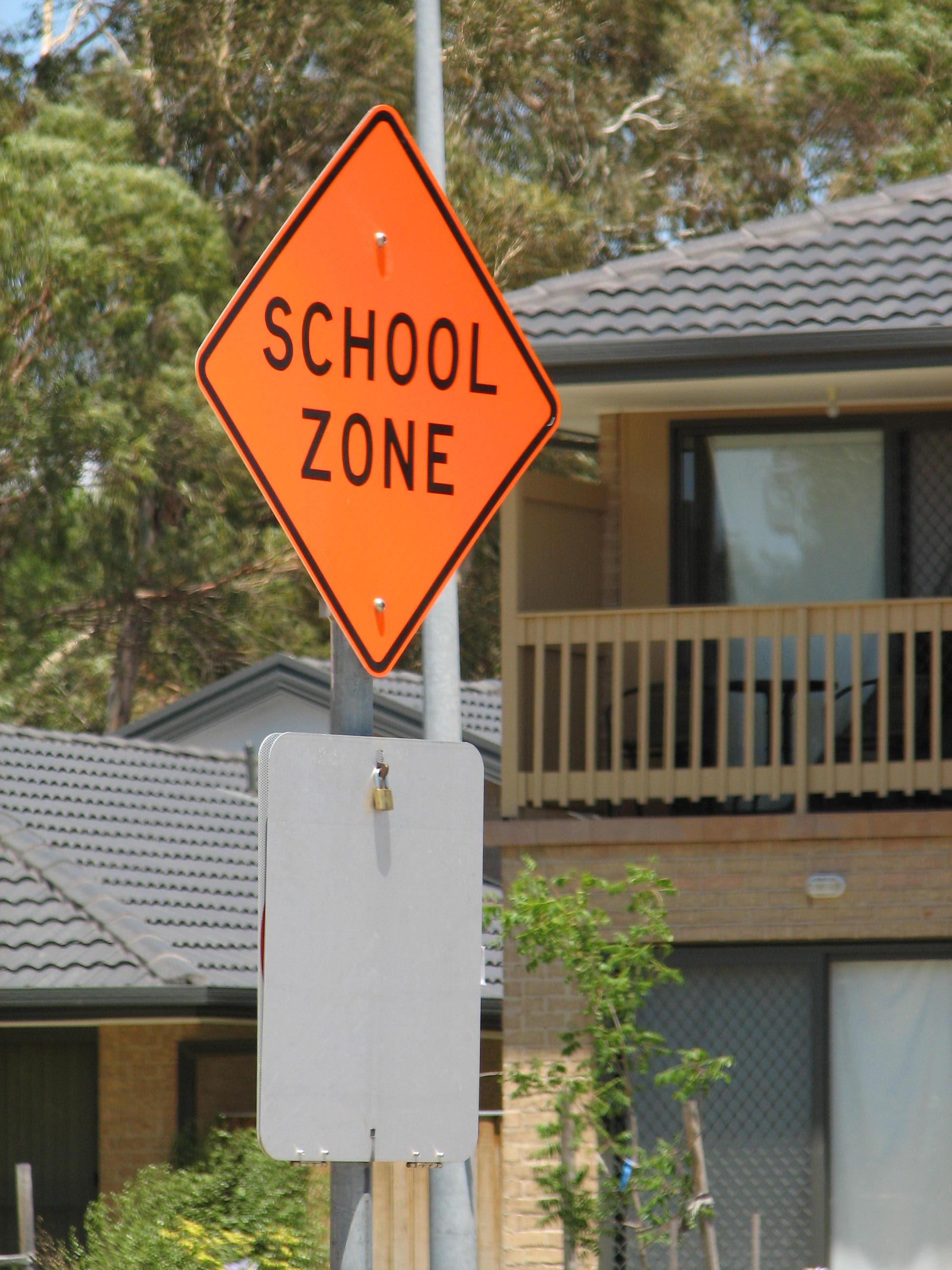 School zone sign in Latham. Taken by me on 20th January 2007.